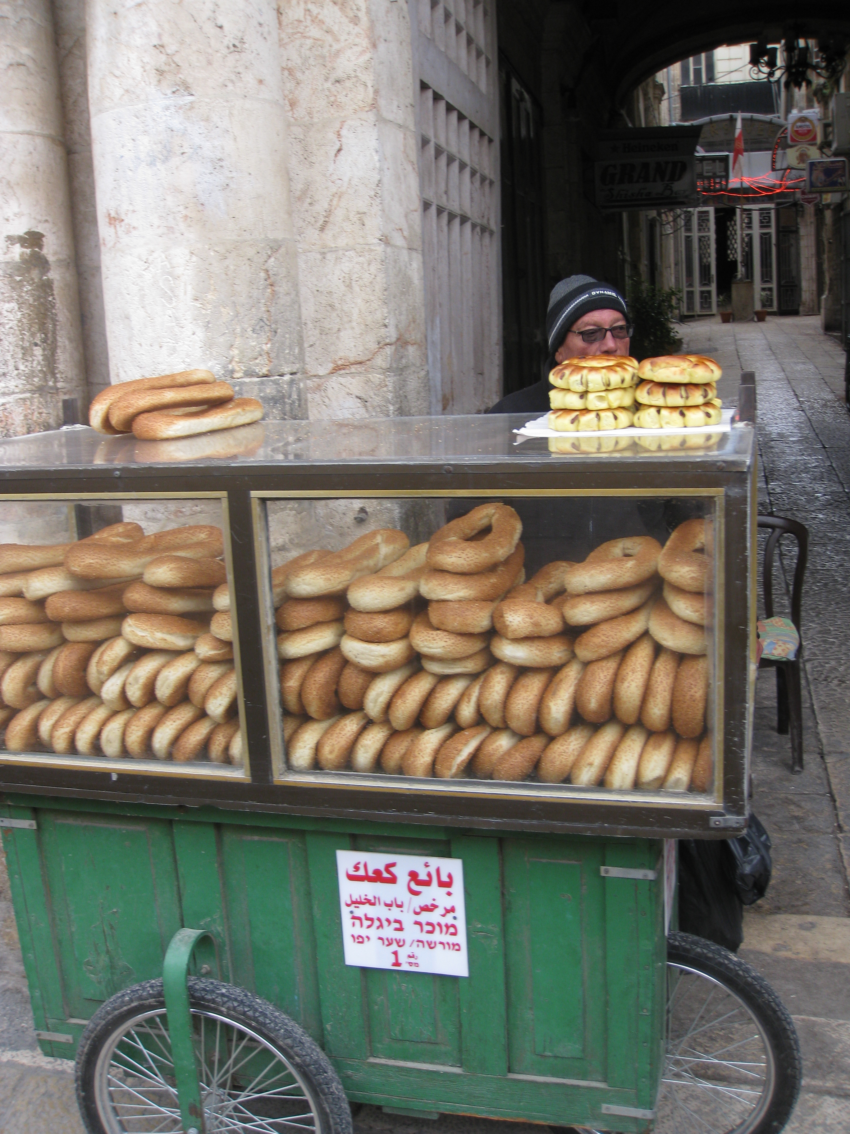 Inside the Old City of Jerusalem, near Jaffa Gate הרחבה הפנימית של שער יפו